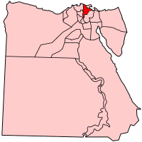 Map of Egypt showing Ad Daqahliyah (Dakahleya) governorate. Made by User:Golbez based on PD maps.